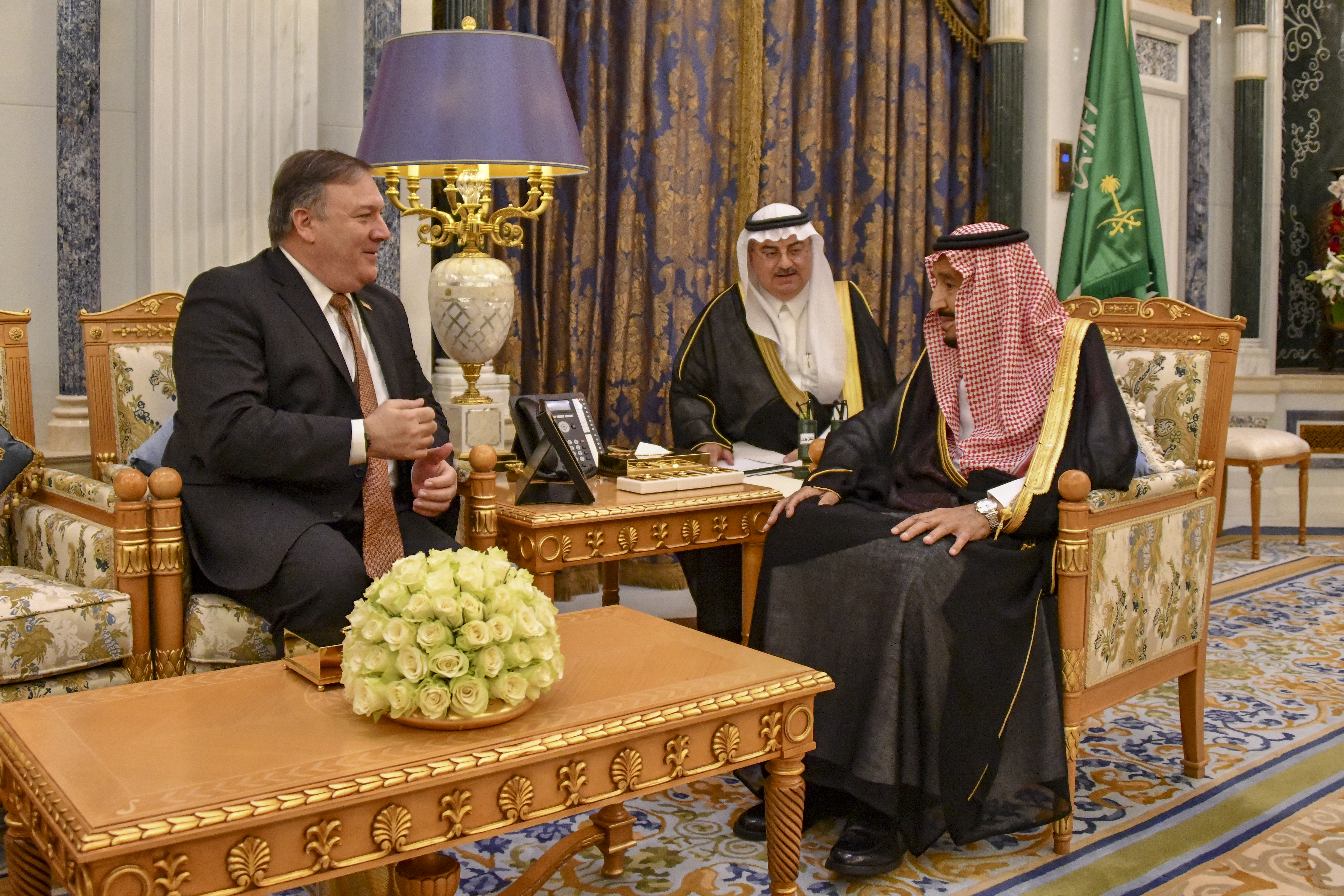 U.S. Secretary of State Michael R. Pompeo meets with Saudi King Salman bin Abdul-Aziz at the Royal Court in Riyadh, Saudi Arabia on October 16, 2018. [State Department photo/Public Domain]